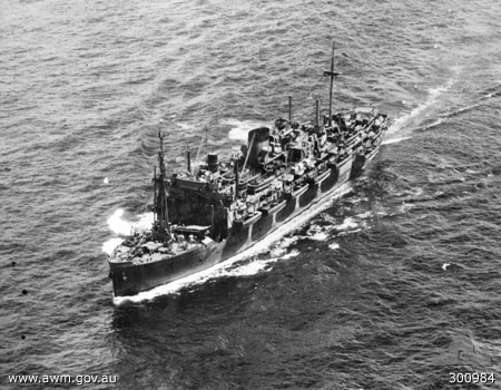 AWM Caption: BRISBANE, QLD. C.1944. AERIAL PORT BOW VIEW OF THE LANDING SHIP INFANTRY (LARGE) HMAS MANOORA. LANDING CRAFT VEHICLE PERSONNEL ARE CARRIED IN DAVITS ALONG THE SHIP'S SIDE, IN THE WELL DECK FORWARD, BETWEEN THE BRIDGE AND FUNNEL AND IMMEDIATELY ABAFT THE SUPERSTRUCTURE. AN UNSHIELDED 6 INCH GUN IS MOUNTED AFT. A 3 INCH AA GUN IS MOUNTED ABREAST THE FUNNEL. EIGHT SINGLE 20 MM OERLIKON ANTI AIRCRAFT GUNS ARE MOUNTED BESIDE THE BRIDGE AND ON THE AFTER SUPERSTRUCTURE. TYPE 271 RADAR IS FITTED AT THE BACK OF THE BRIDGE. THE SHIP IS PAINTED IN ALL OVER DARK GREY CAMOUFLAGE SCHEME.